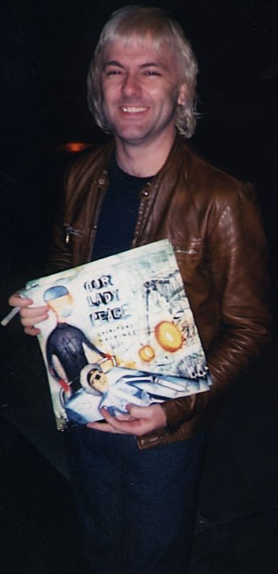 Mike Turner, former lead guitarist for Our Lady Peace, in 2000 promoting Spiritual Machines.